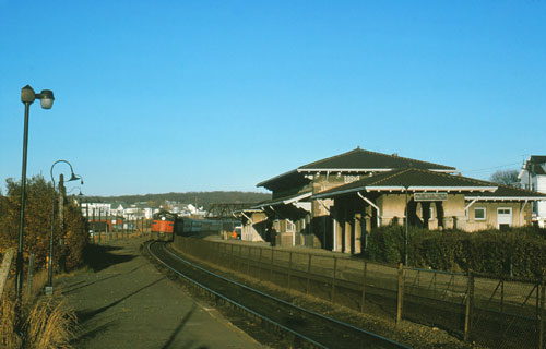 A southbound Amtrak train, probably the Senator based on the late afternoon shadows, at Westerly station in November 1974